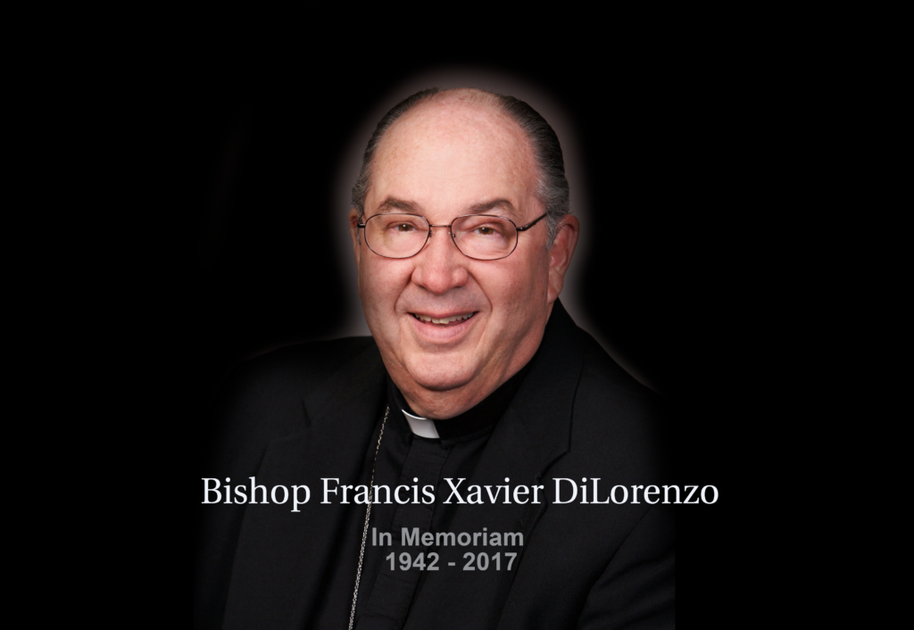 Francis X. DiLorenzo